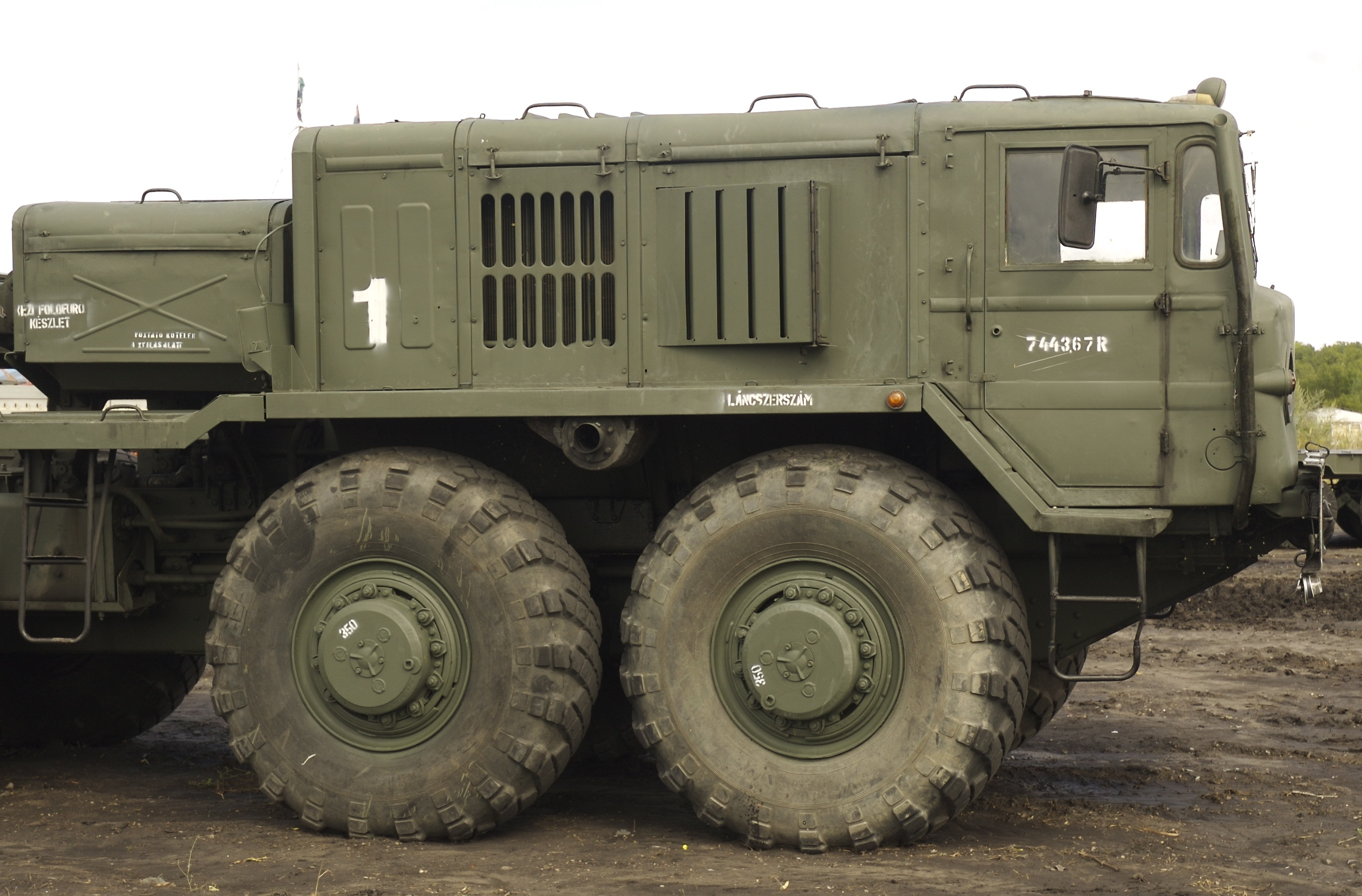 Soviet MAZ-537G tank trailer (with Hungarian marking)